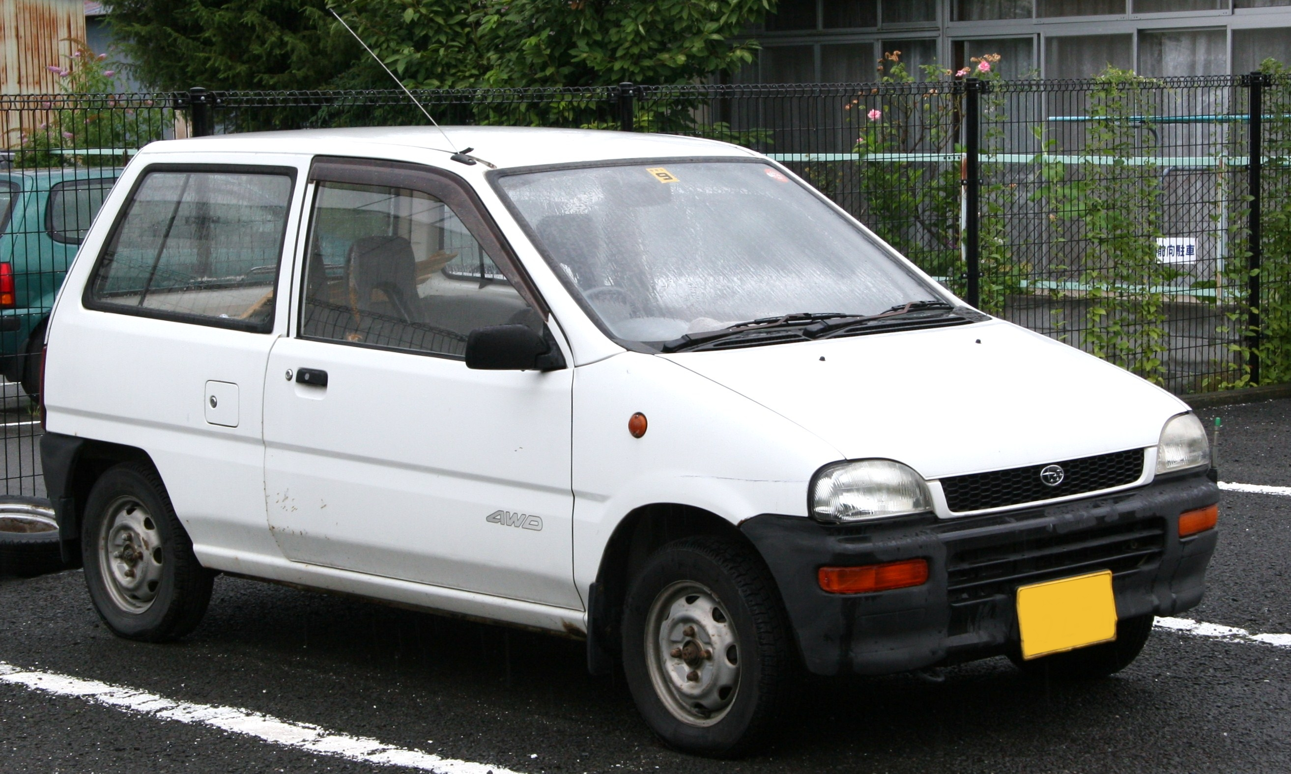 Subaru Rex 4WD, commercial version. This is a late model 660cc car, chassis code KP4